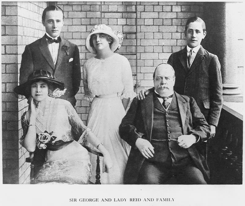 George Reid, Florence Reid and their children (left to right) Douglas, Thelma and Clive, in London c. 1915.